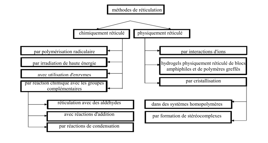 méthodes usuelles de synthèses d'hydrogel